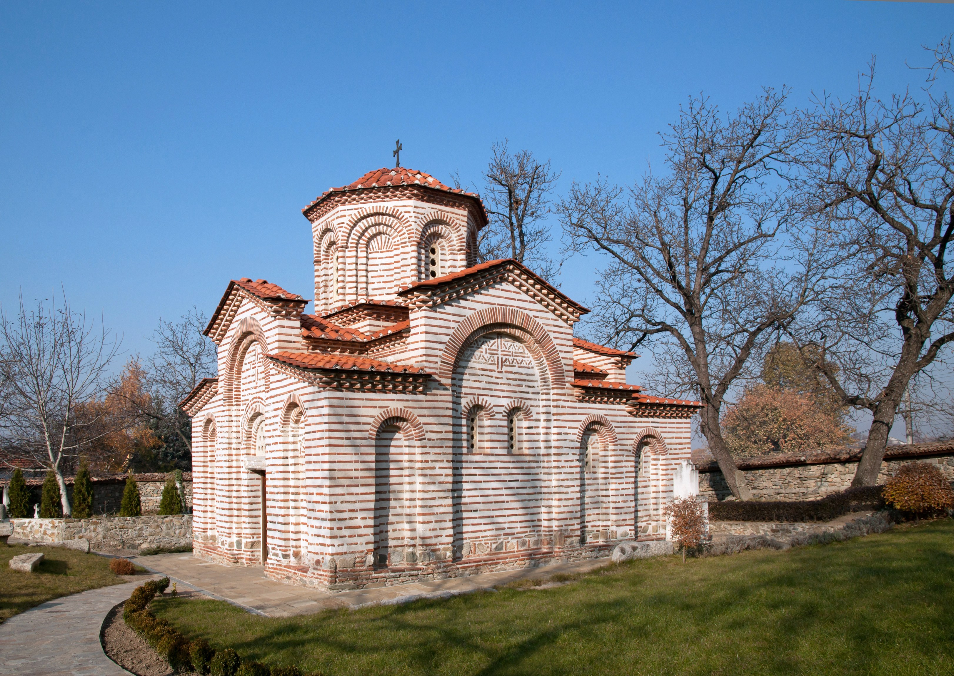 The reconstructed medieval Church of St George in Kyustendil, Bulgaria.